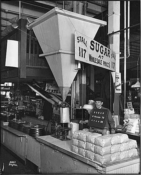 Sugar vendor, Pike Place Market, Seattle, Washington, USA, 1917. Reference number printed on image: 5807 Depue.